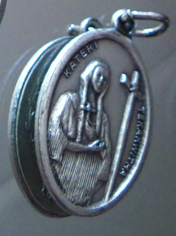 A Catholic devotional medal depicting Kateri Tekakwitha, an early Native American convert to Christianity.